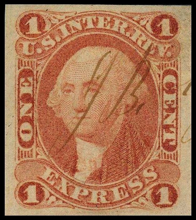 Image of first Washington revenue stamp, 1-cent , issue of 1862 (Scotts# R1)